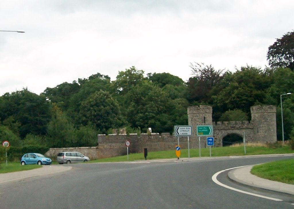 The Charleville Roundabout, Tullamore